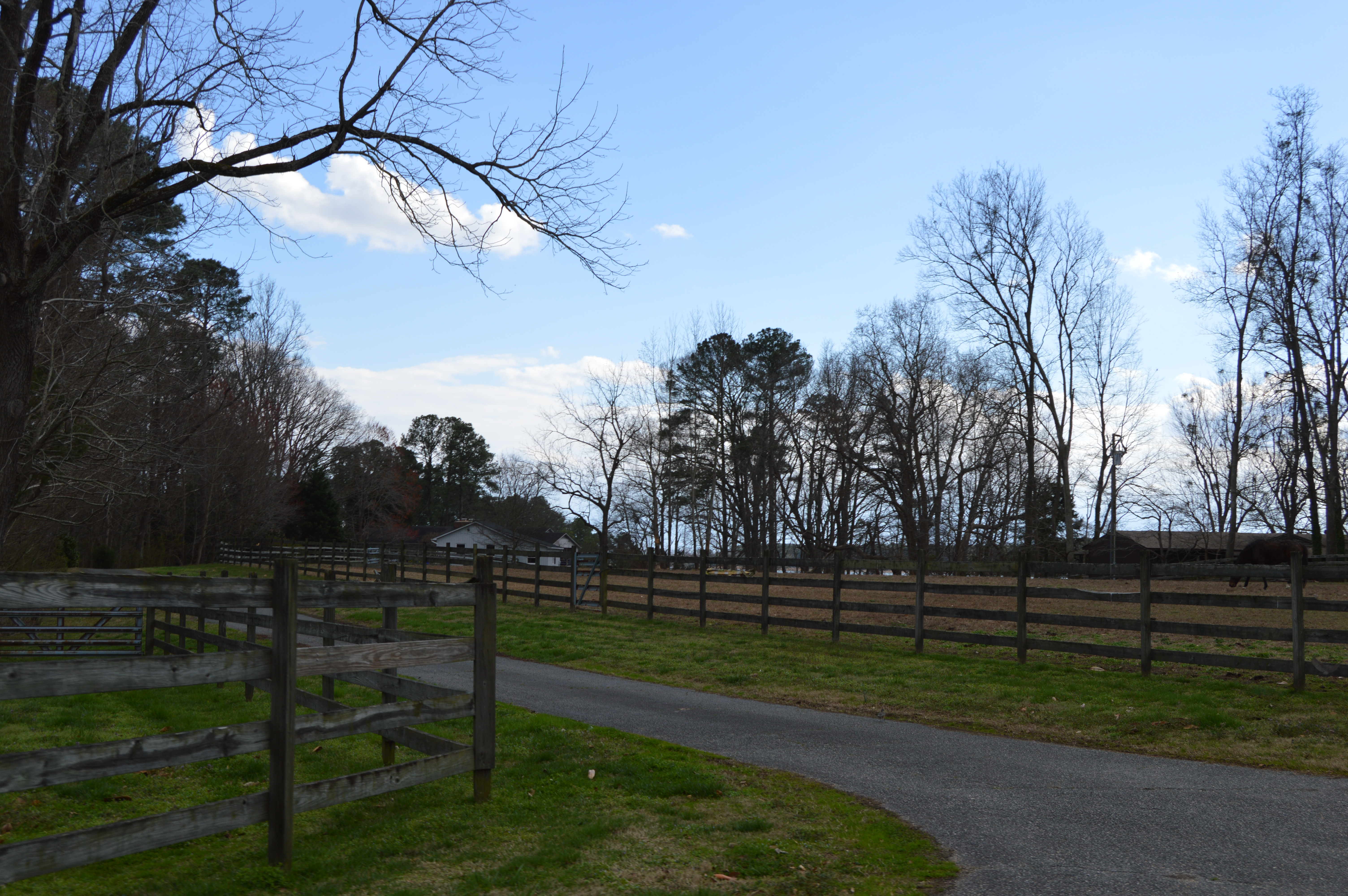 Overview of the site of the first Denbigh Parish Church, located above the confluence of Church Creek and the Warwick River, off Miller Road, in Newport News, Virginia, United States. The site is listed on the National Register of Historic Places.